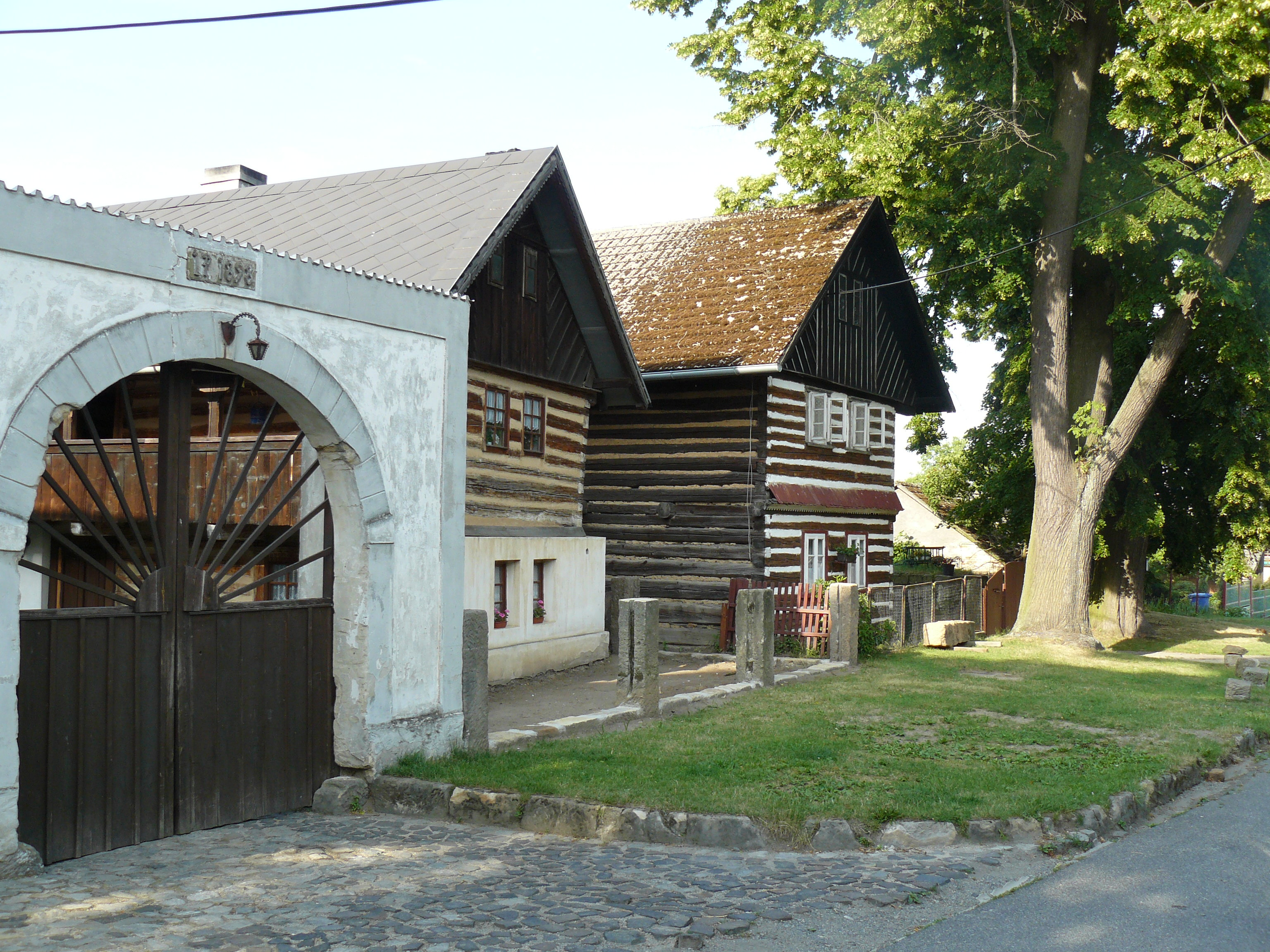 Nosálov, Mělník District. House no. 8.